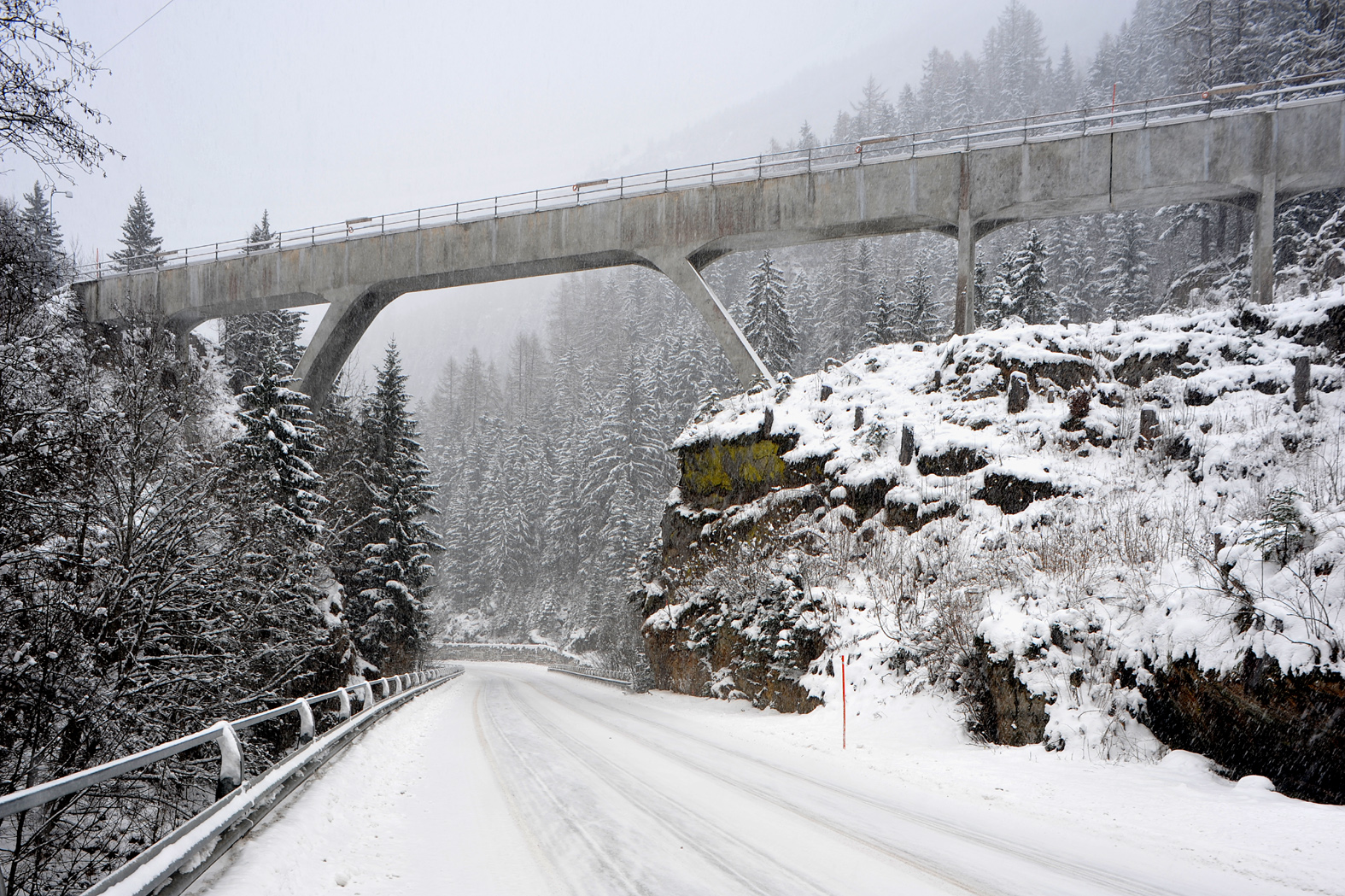 Aqueduct by Robert Maillart near Le Châtelard, 1925; Valais, Switzerland. On the top of the hollow profile runs a footpath.